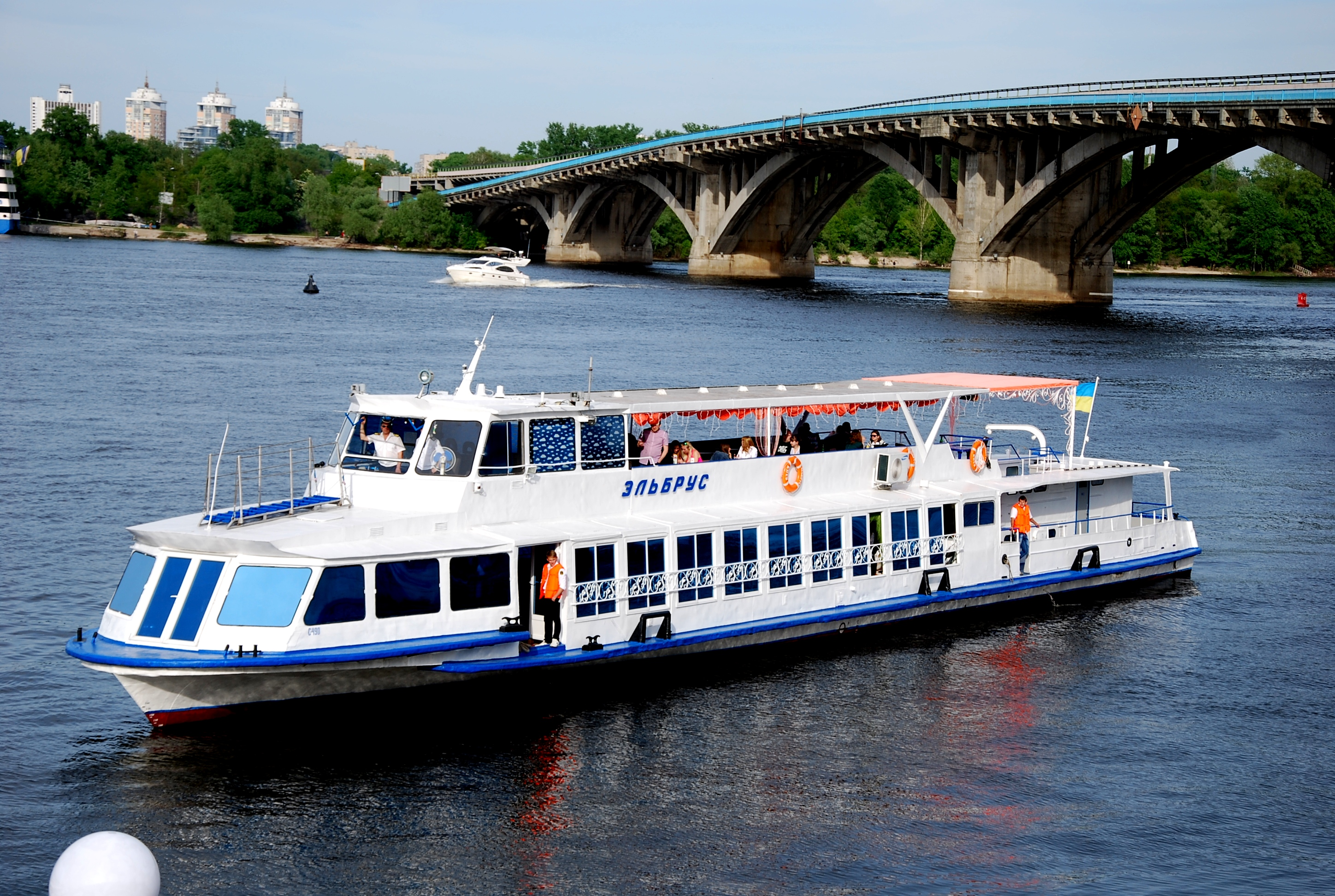 Теплоход "Эльбрус" на реке Днепр